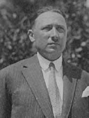 Reşit Galip Bey (Baymur)